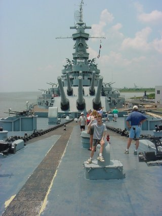 USS Alabama - personal photo - rights granted